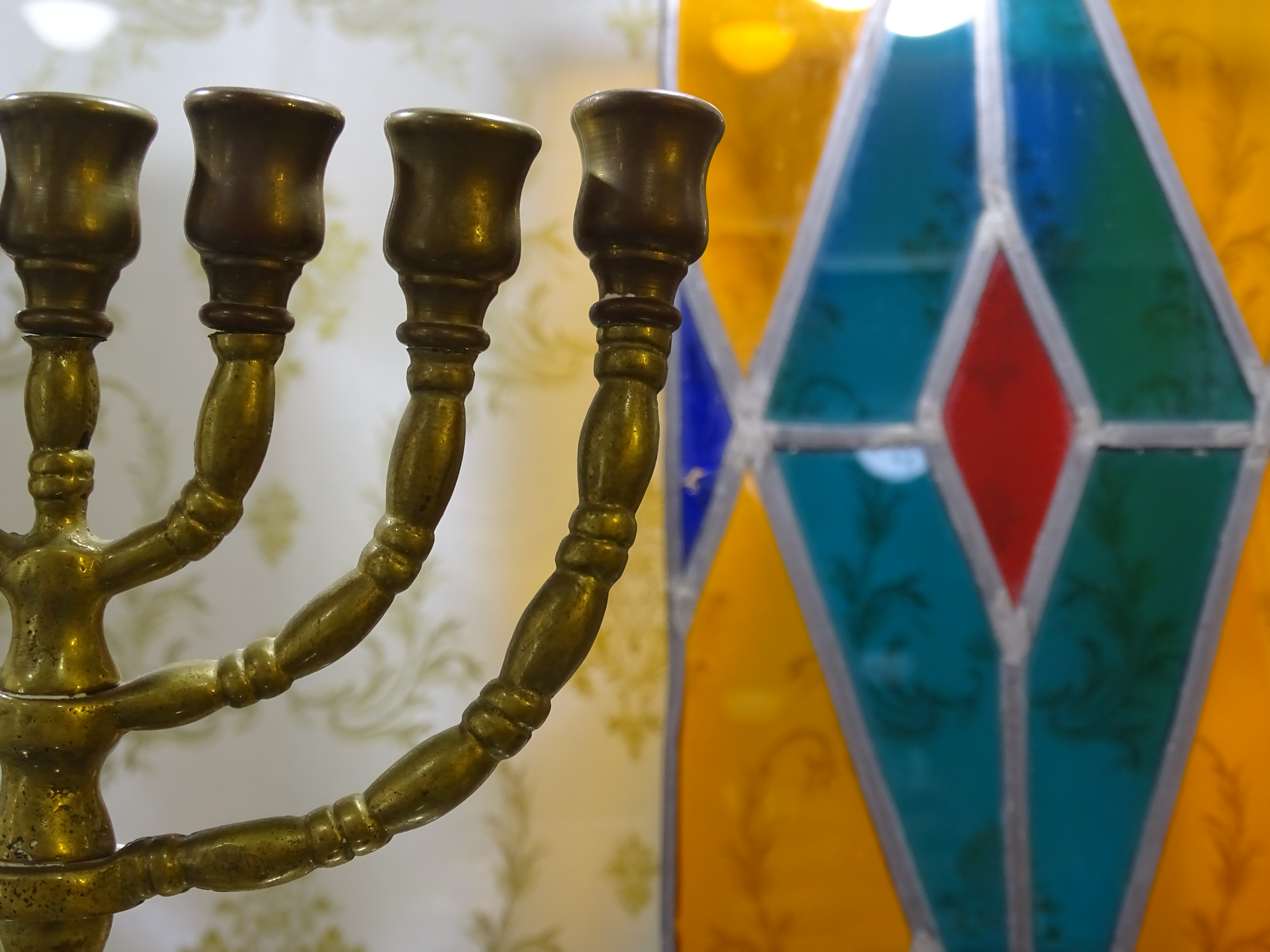 Detail of Menorah with Stained Glass - Jewish Museum of Odessa - Odessa - Ukraine